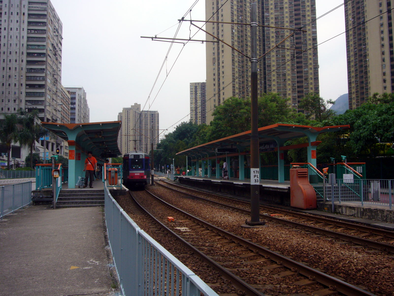 LRT Shek Pai Stop, MTR HK